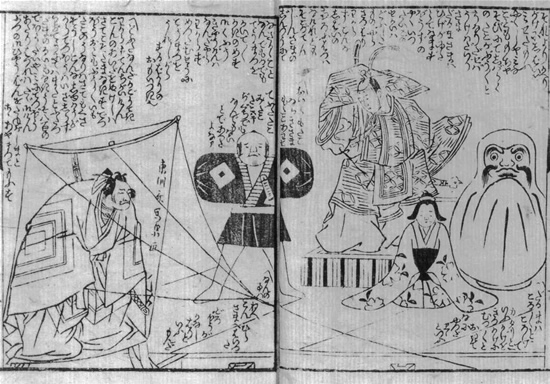 Page from Shotōzan Tenarai Hōjō in which a picture by Sharaku appears on a kite